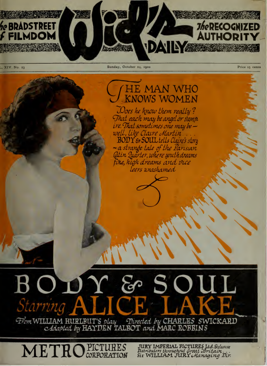 Alice Lake in Body and Soul (1920) directed by Charles Swickard